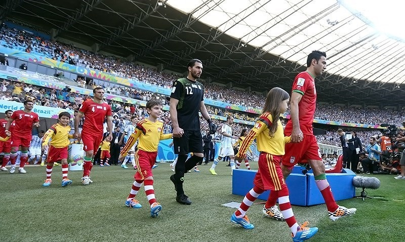 Iran and Argentina national football teams match, 2014 FIFA World Cup Group F